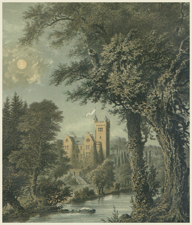 The view of Neuscharffenberg castle near Eisenach.